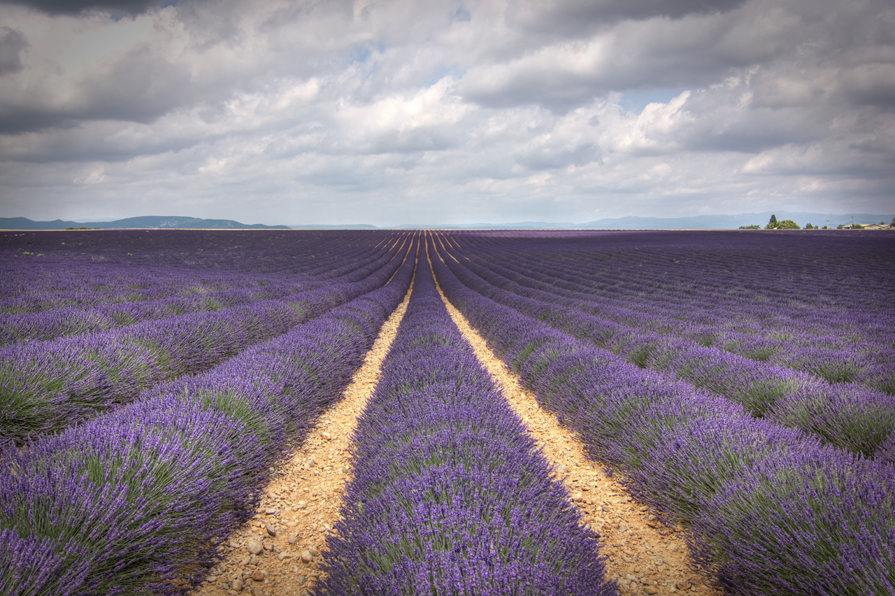 Somewhere between Valensole and Moustiers-Sainte-Marie. Provence, Fr. This image and many more from my Photostream are shared under Creative Commons licence. Author: Salva Barbera. You can use this image on websites, blogs or other media projects without my permission as long as you credit me as the Author. My images may not be used for any profane or immoral purpose or to incite violence or hatred. Please read the Creative Commons image licence guidelines before downloading. A link back to my Flickr account is not mandatory but highly appreciated.